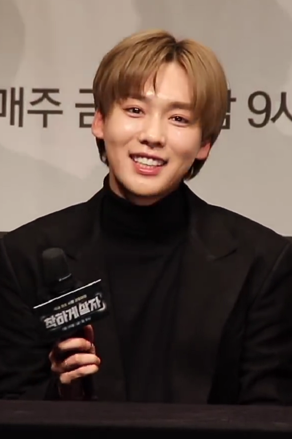 Kim Jin-woo at 'Live a Good Life' press conference on January 18, 2018.